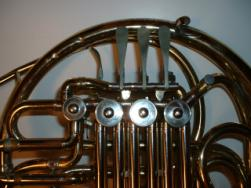 Detail photograph of the valves of a French horn. This is a closeup of the valves of a typical F/Bb double horn. Note the left most valve, which selects the Bb side of the horn when depressed. (Photo by Wikipedia user dbrandon of his Conn 8d horn.)